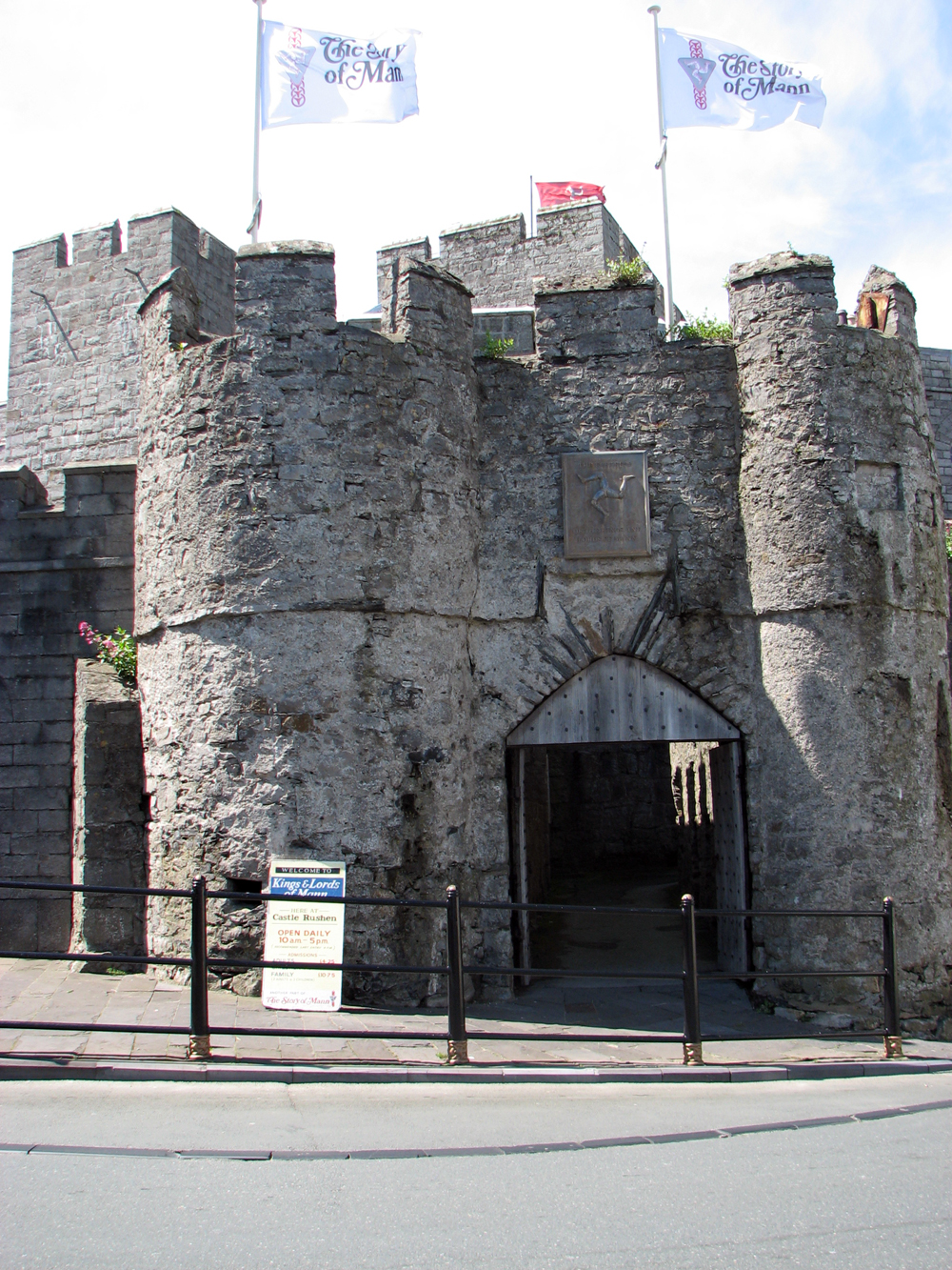 Castle Rushen, Isle of Man